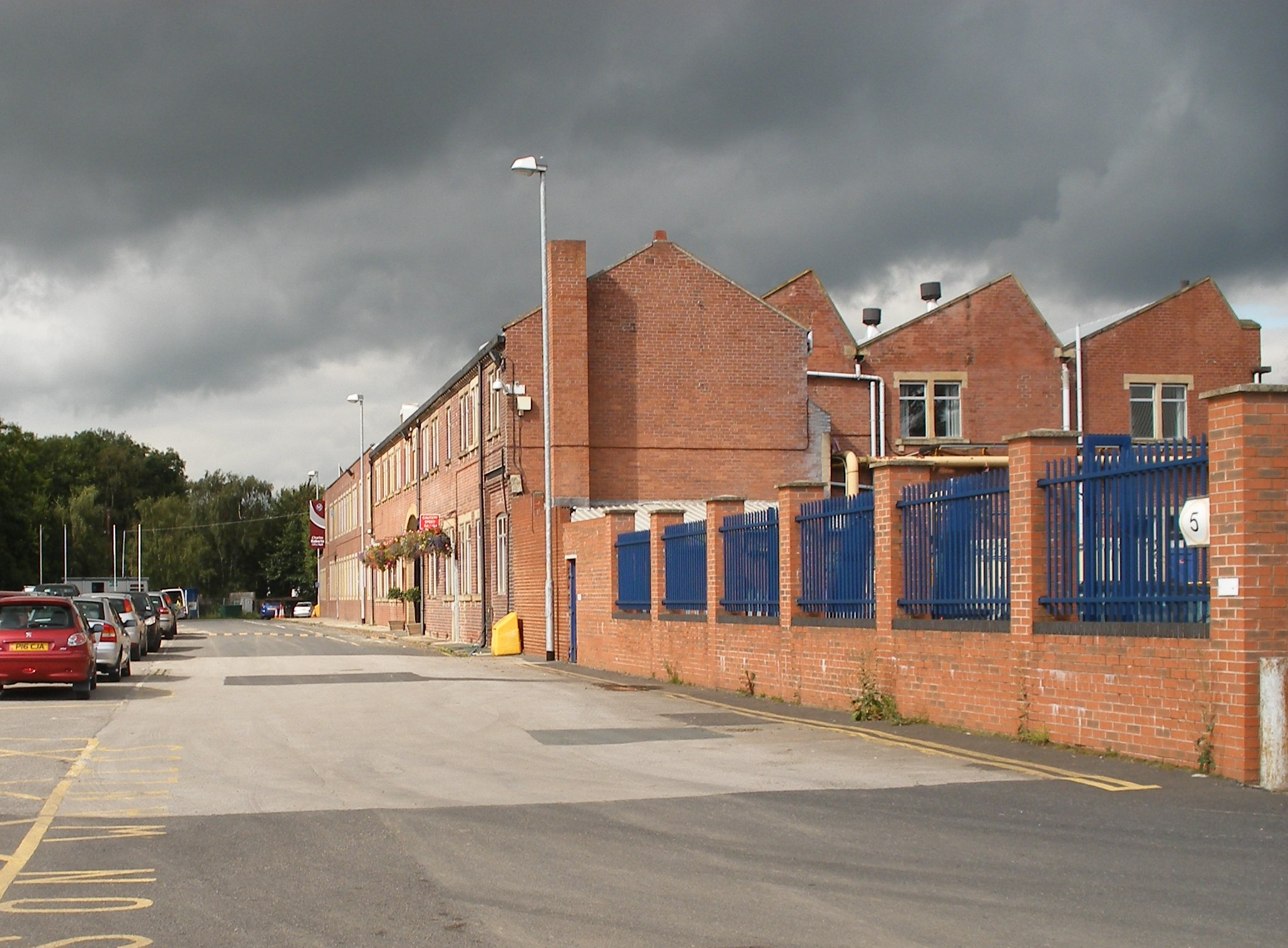 Charles Roberts Works at Horbury Junction